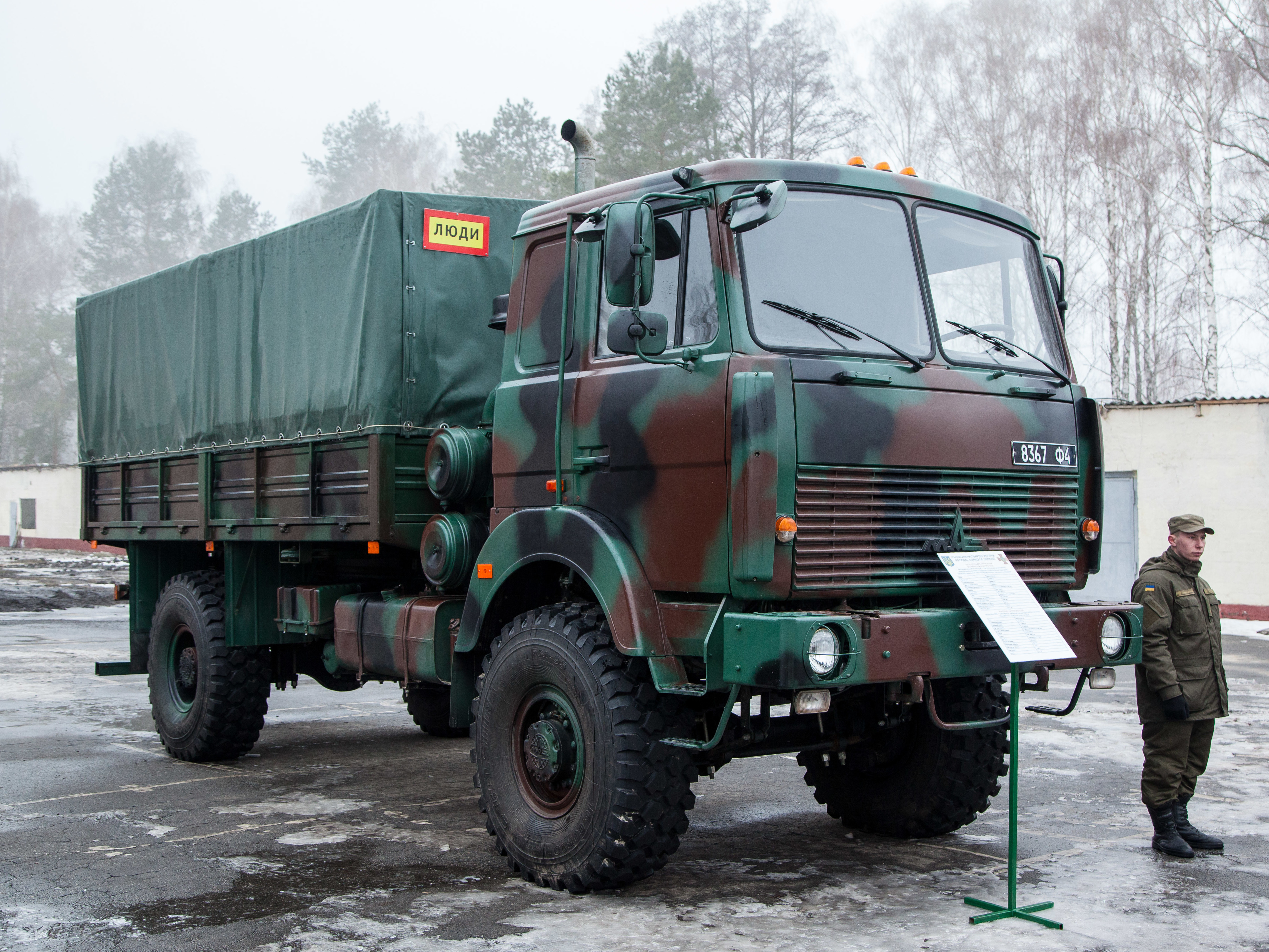 A MAZ-5316 in ukrainien military service.